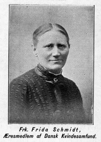 Portrait of the Danish women's rights activist Frida Schmidt (1849-1934=